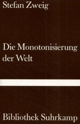 Book cover of Stefan Zweig, "Die Monotonisierung der Welt" (1976